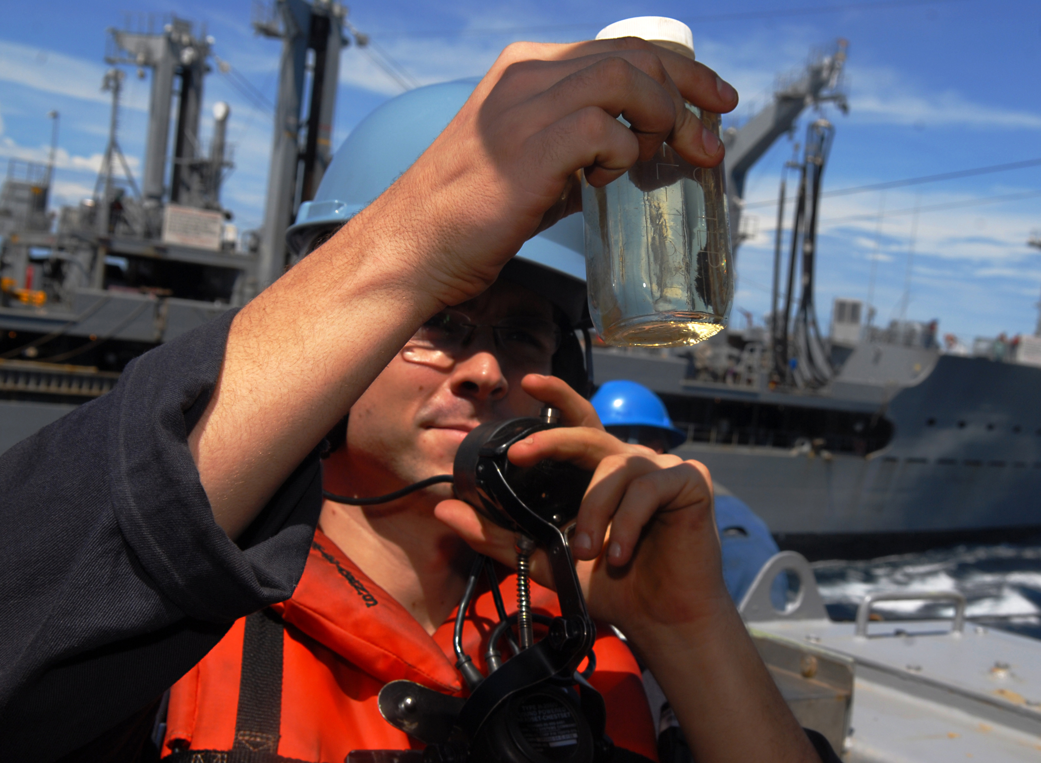 SOUTH CHINA SEA (Nov. 17, 2010) Machinist's Mate 3rd Class Robert Loughbom inspects a sample of JP-5 jet fuel aboard the amphibious transport dock ship USS Dubuque (LPD 8) during a refueling at sea with the Military Sealift Command fleet replenishment oiler USNS Pecos (T-AO 197). Dubuque is part of the Peleliu Amphibious Ready Group, which is transiting the U.S. 7th Fleet area of responsibility en route to its homeport in San Diego. (U.S. Navy photo by Mass Communication Specialist 1st Class David McKee/Released)